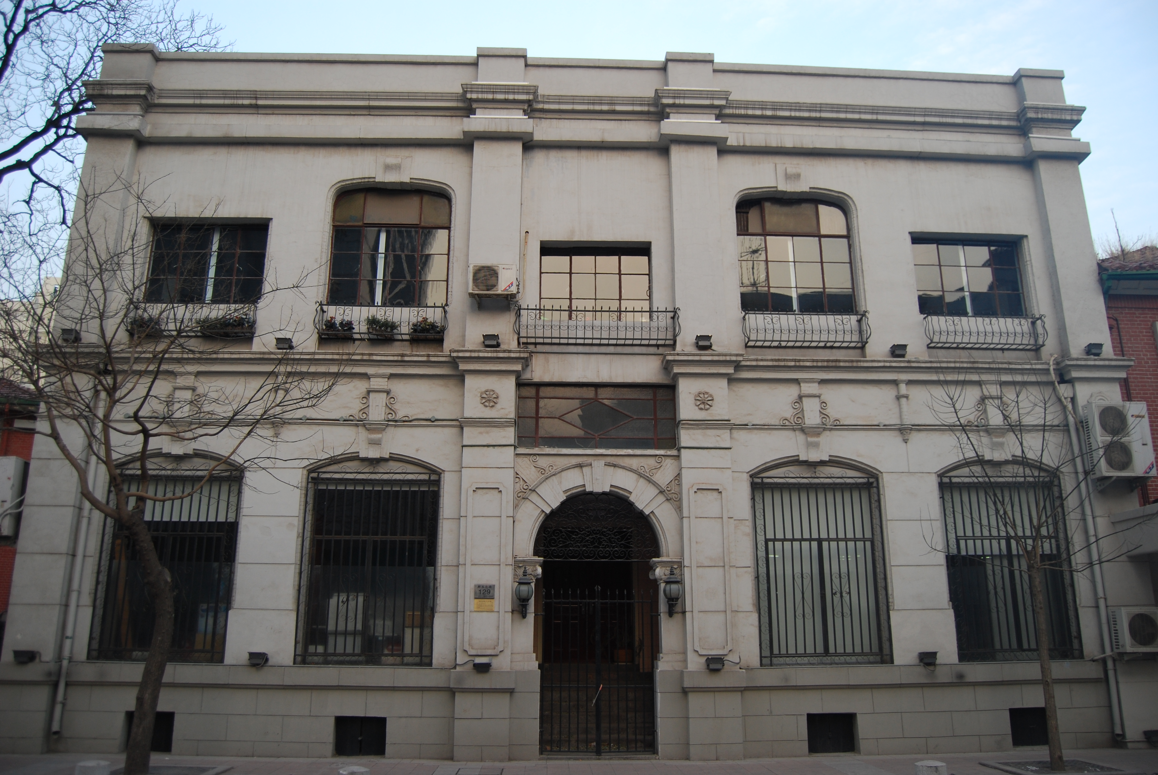 Gibb, Livingston & Co, Tianjin Branch building in Jiefangbei, Heping District (cf. File:天津仁记洋行.jpg)